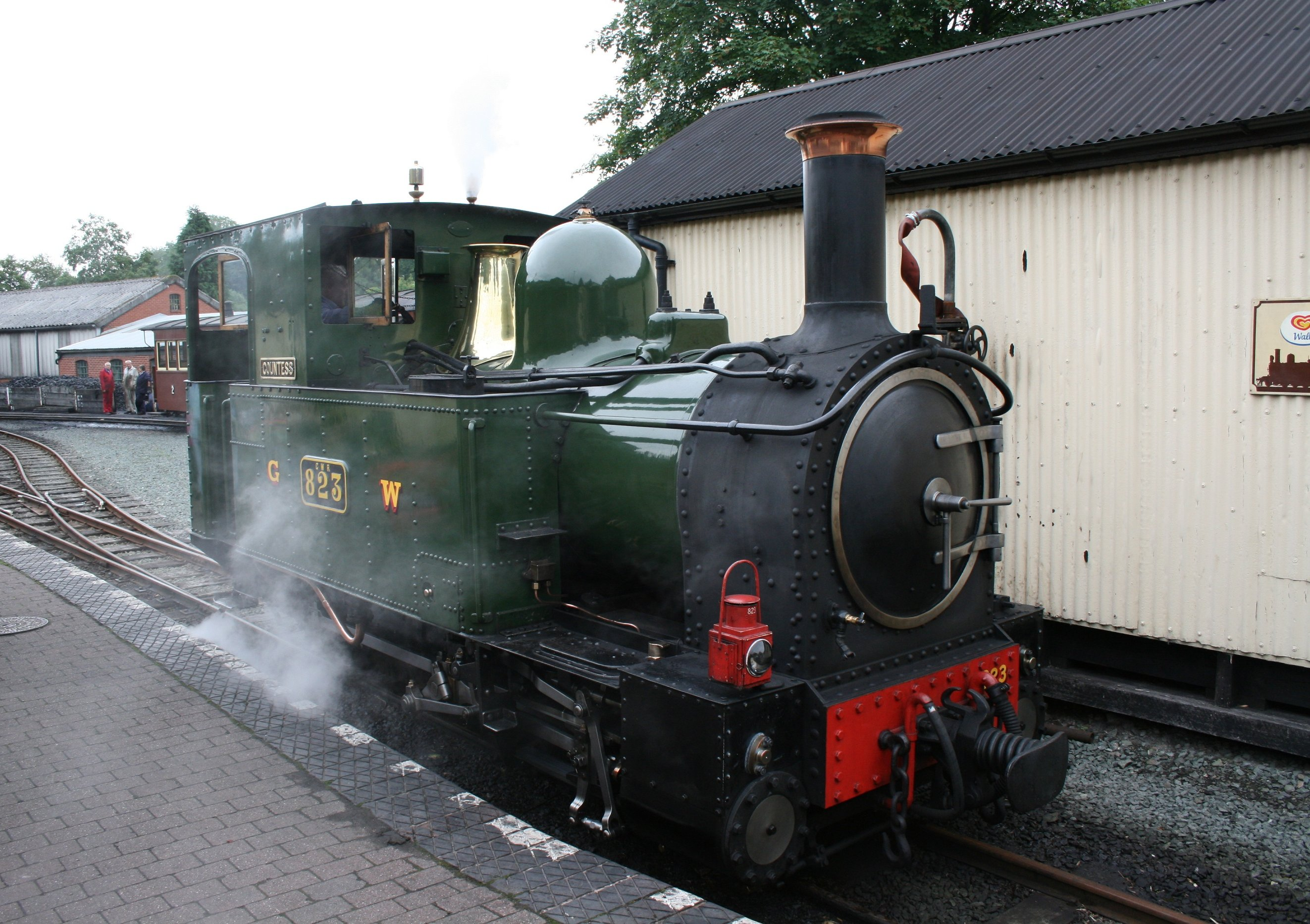 Beyer-Peacock works number 3497 of 1092. W&L number 2, GWR number 823